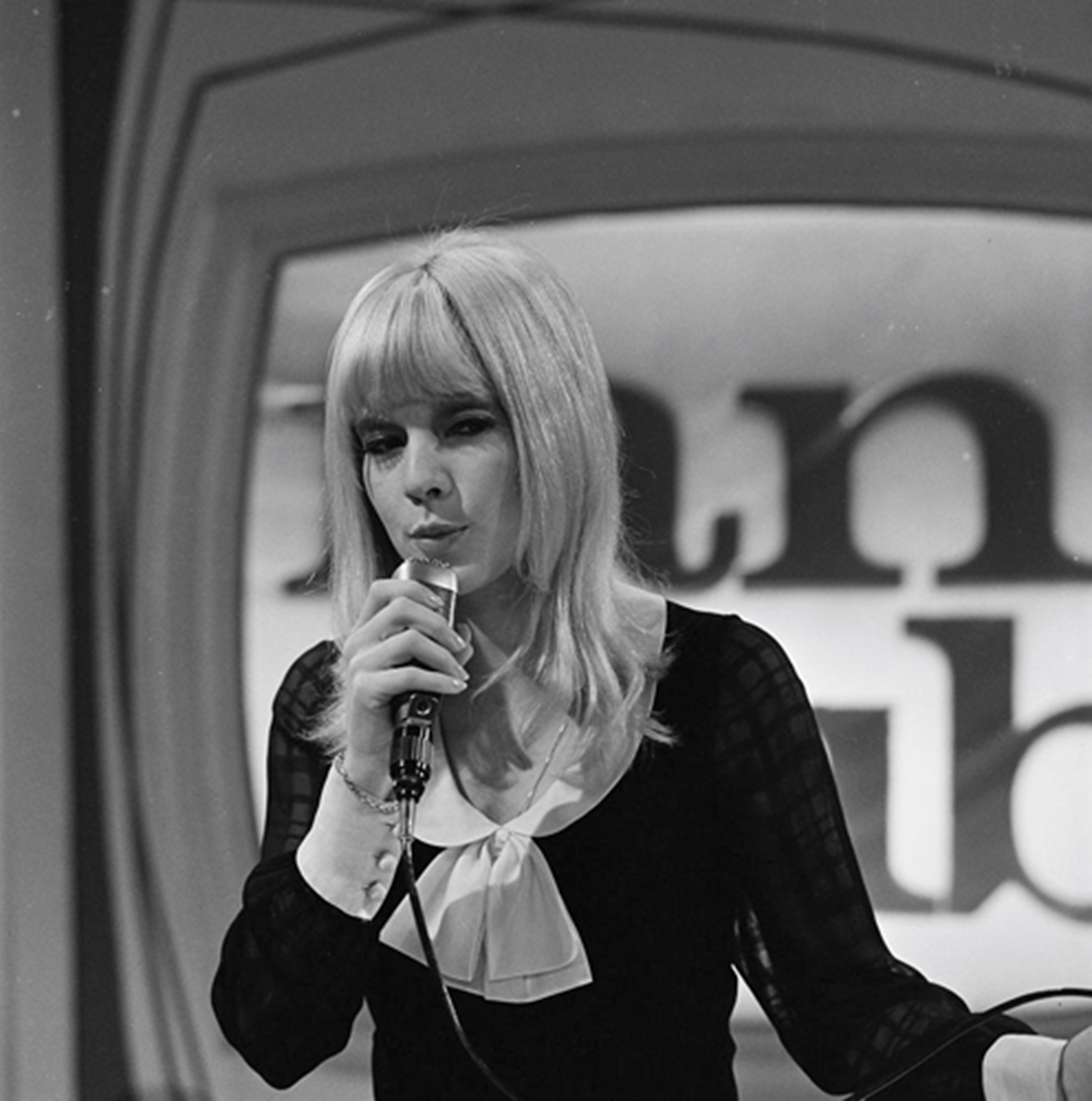 Sylvie Vartan performing the songs "Le Chanson", "Ik heb op jou gewacht" and "La plus bele pur aller danser" in Dutch TV programme Fanclub, 10 Dec. 1966